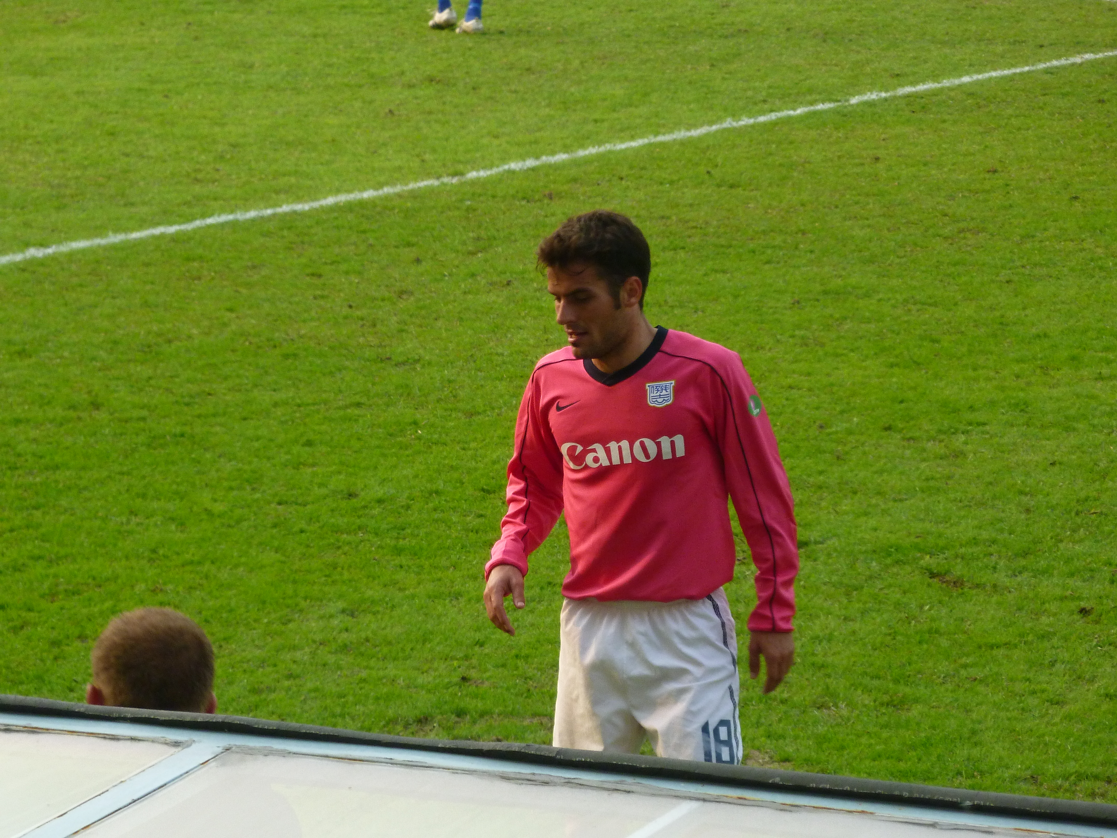 Jordi Tarrés Páramo (8 Jan 2012 Hong Kong First Division League, Rangers vs Kitchee, Mong Kok Stadium)